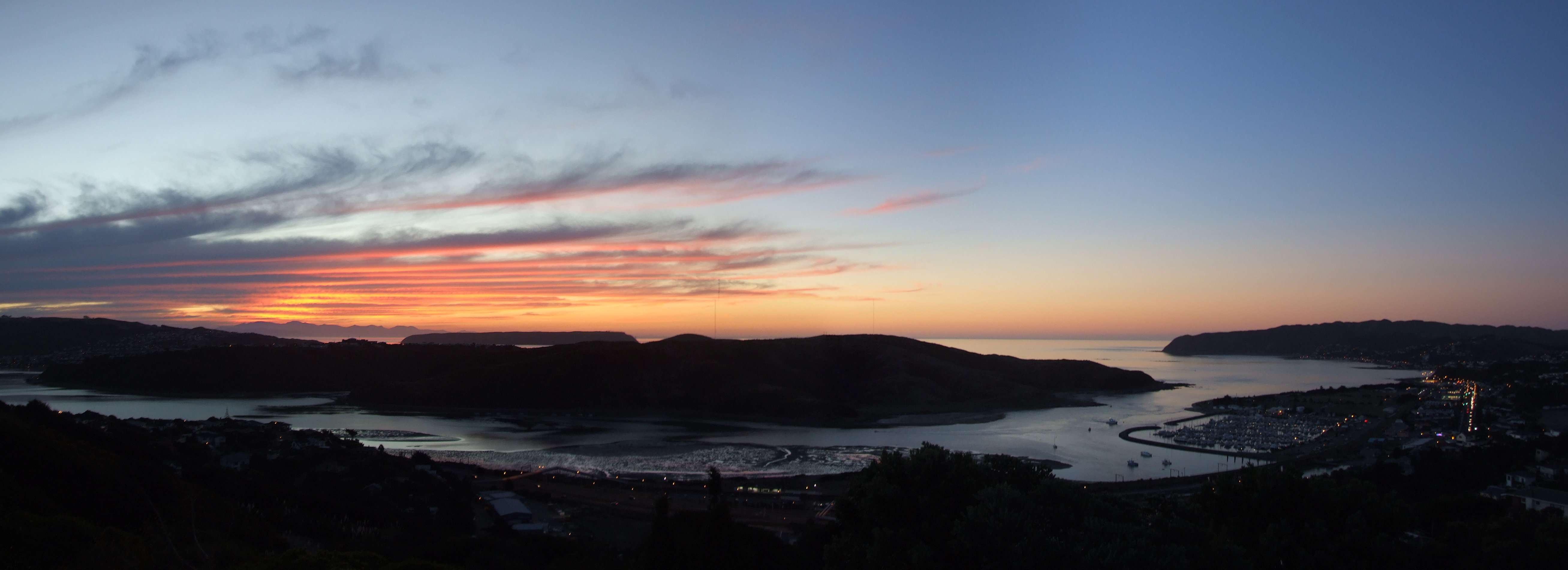 A panorama of the entrance and Porirua inlet of Porirua harbour